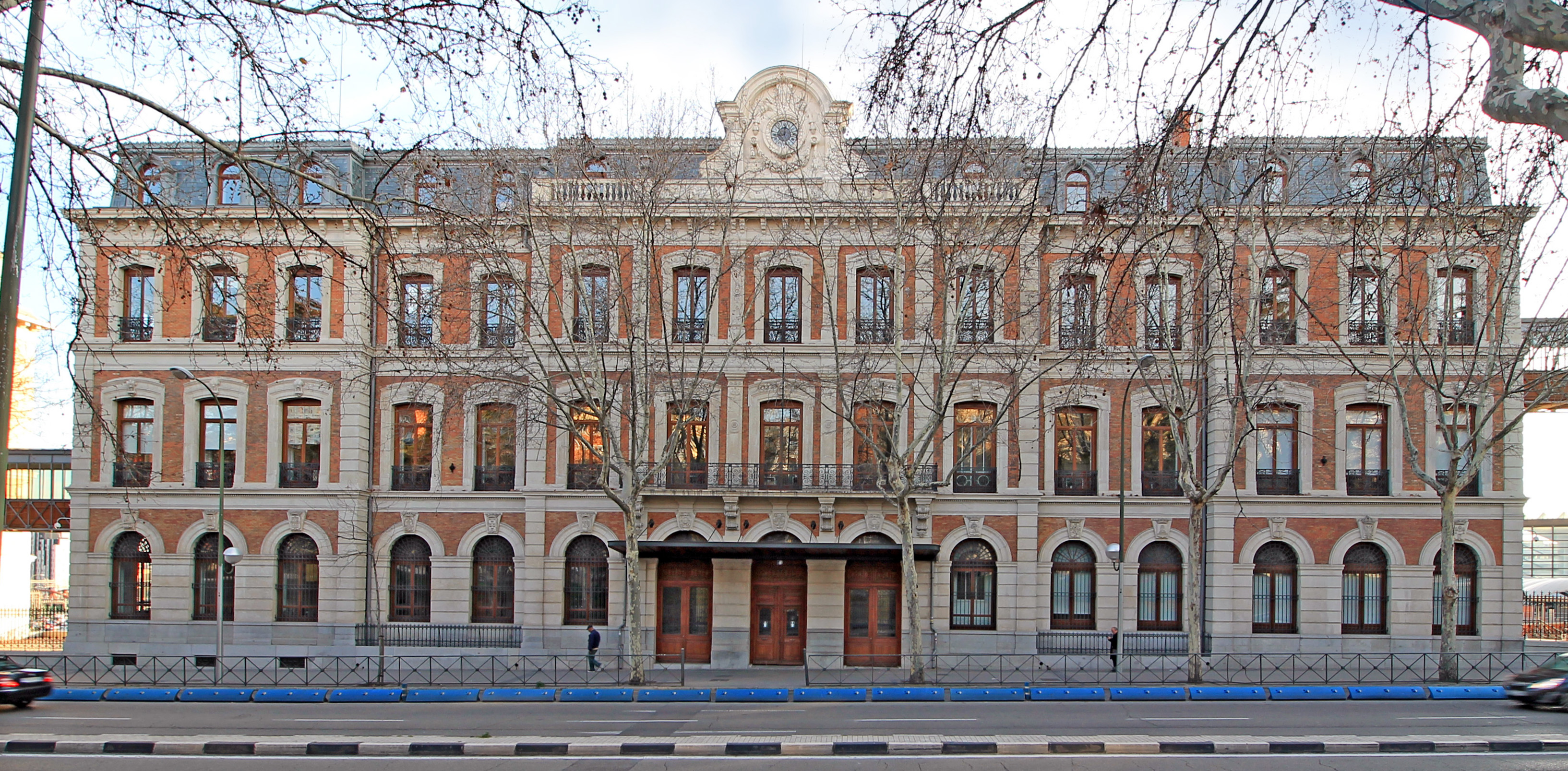 Façade of Adif offices at 4th Avenida de la Ciudad de Barcelona (street) in Arganzuela District in Madrid (Spain). Building was designed by architect Benoist Victor Lenoir and built from 1885 to 1890.